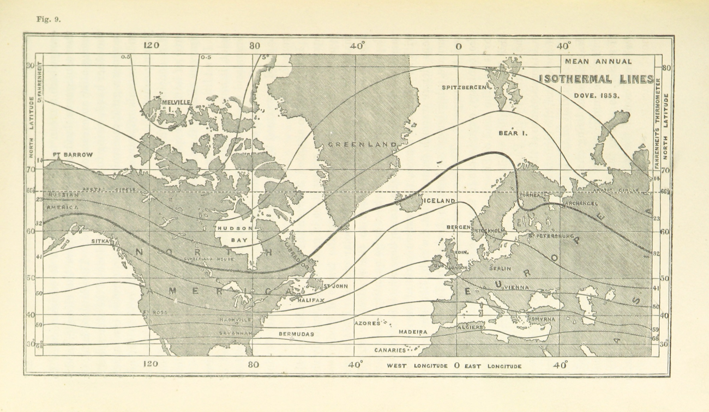 View this map on the BL Georeferencer service. Image taken from: Title: "[Principles of Geology ... Reprinted from the sixth English edition, etc.]" Author: LYELL, Charles - Sir, Bart Shelfmark: "British Library HMNTS 7109.bb.19." Volume: 01 Page: 264 Place of Publishing: London Date of Publishing: 1867 Edition: Tenth and entirely revised edition. Illustrated with maps, plates, and woodcuts. Issuance: monographic Identifier: 002293154 Explore: Find this item in the British Library catalogue, 'Explore'. Open the page in the British Library's itemViewer (page image 264) Download the PDF for this book Image found on book scan 264 (NB not a pagenumber)Download the OCR-derived text for this volume: (plain text) or (json) Click here to see all the illustrations in this book and click here to browse other illustrations published in books in the same year. Order a higher quality version from here.